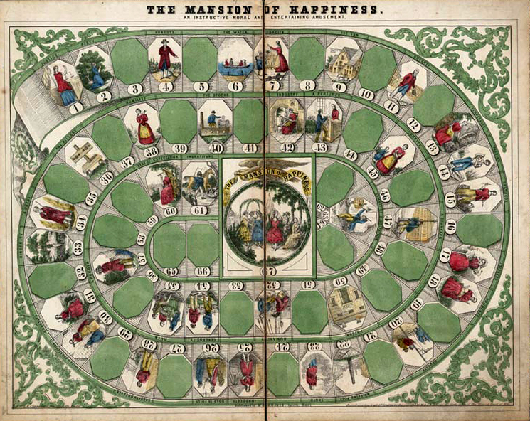 The Mansion of Happiness, a board game of the 19th century